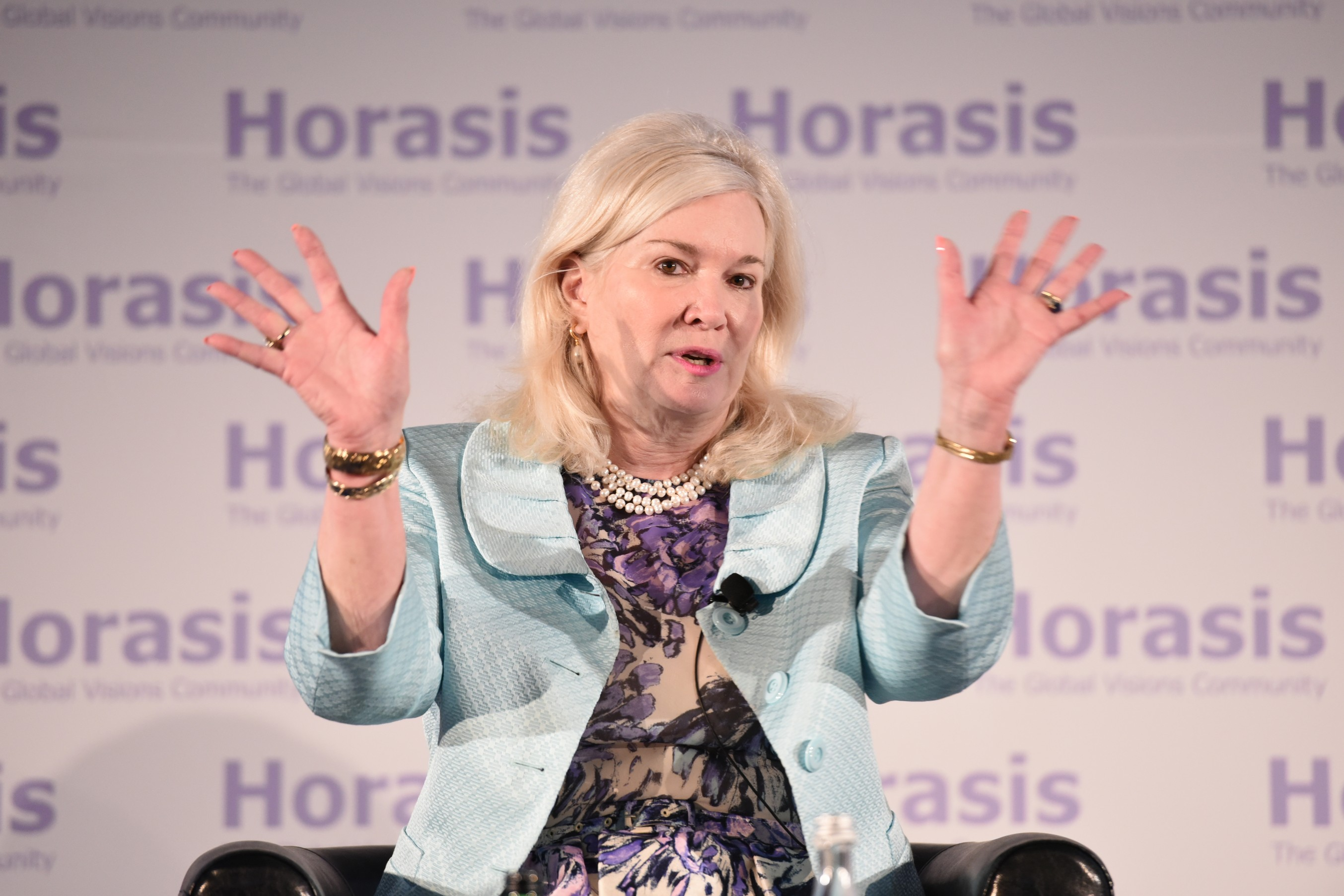 Horasis Global Meeting 2017, Cascais, Portugal, 27-30 May